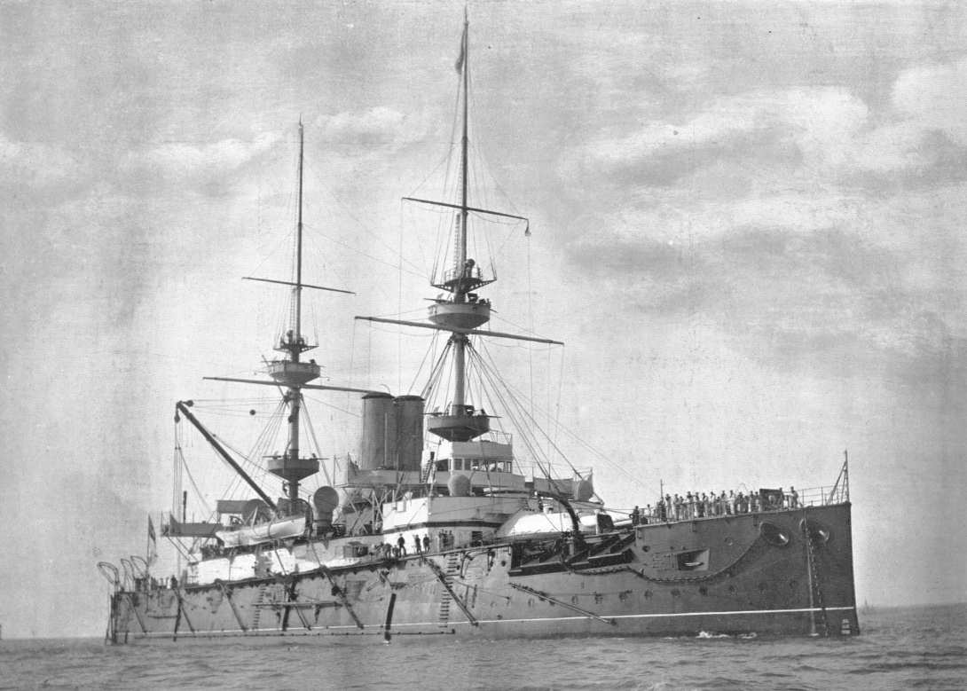 British battleship HMS Prince George of 1895.